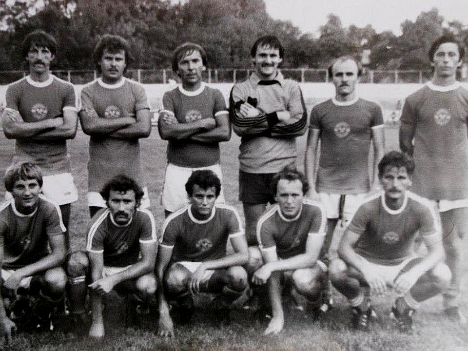 This picture was taken after Dorog vs Nagykanizsa 4 a 1 match in late summer, 1982